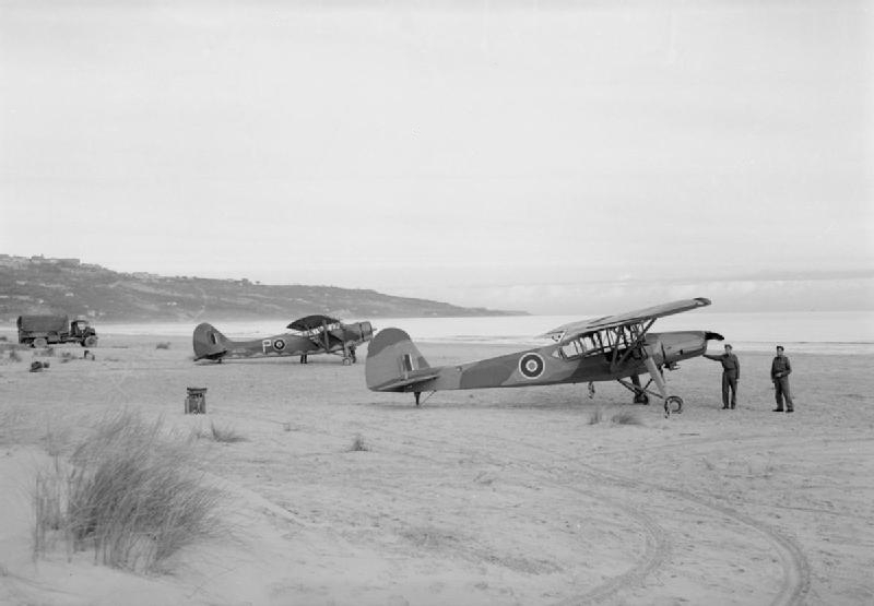 Royal Air Force communications aircraft parked on the beach at Vasto, Italy, which served as the landing ground for the Forward Headquarters of the Desert Air Force, based there from December 1943 to March 1944. In the foreground is the Fiesler Fi 156 C Storch flown by the Air Officer Commanding DAF, Air Vice-Marshal Harry Broadhurst, while in the background is a Vultee-Stinson Vigilant (s/n HK926 "P") of the DAF Communication Flight.